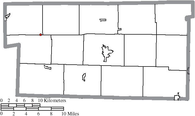 Map of the municipal and township boundaries of Holmes County, Ohio, United States, as of the 2000 census, with the location of the village of Nashville highlighted. Township borders are shown only in unincorporated areas in order to differentiate incorporated and unincorporated areas more clearly.